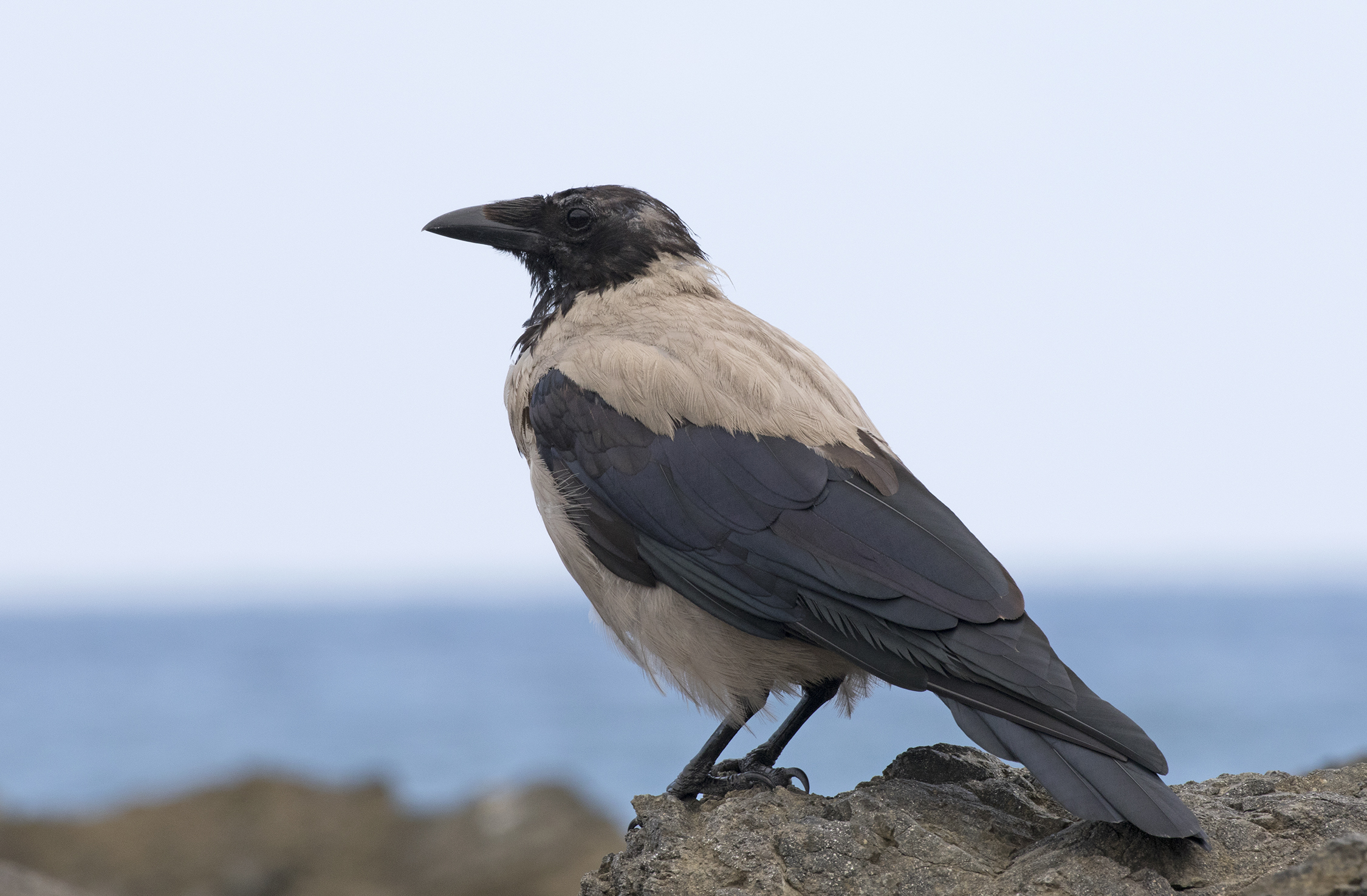 Hooded Crow (Corvus cornix). Espiye - Giresun, Turkey.